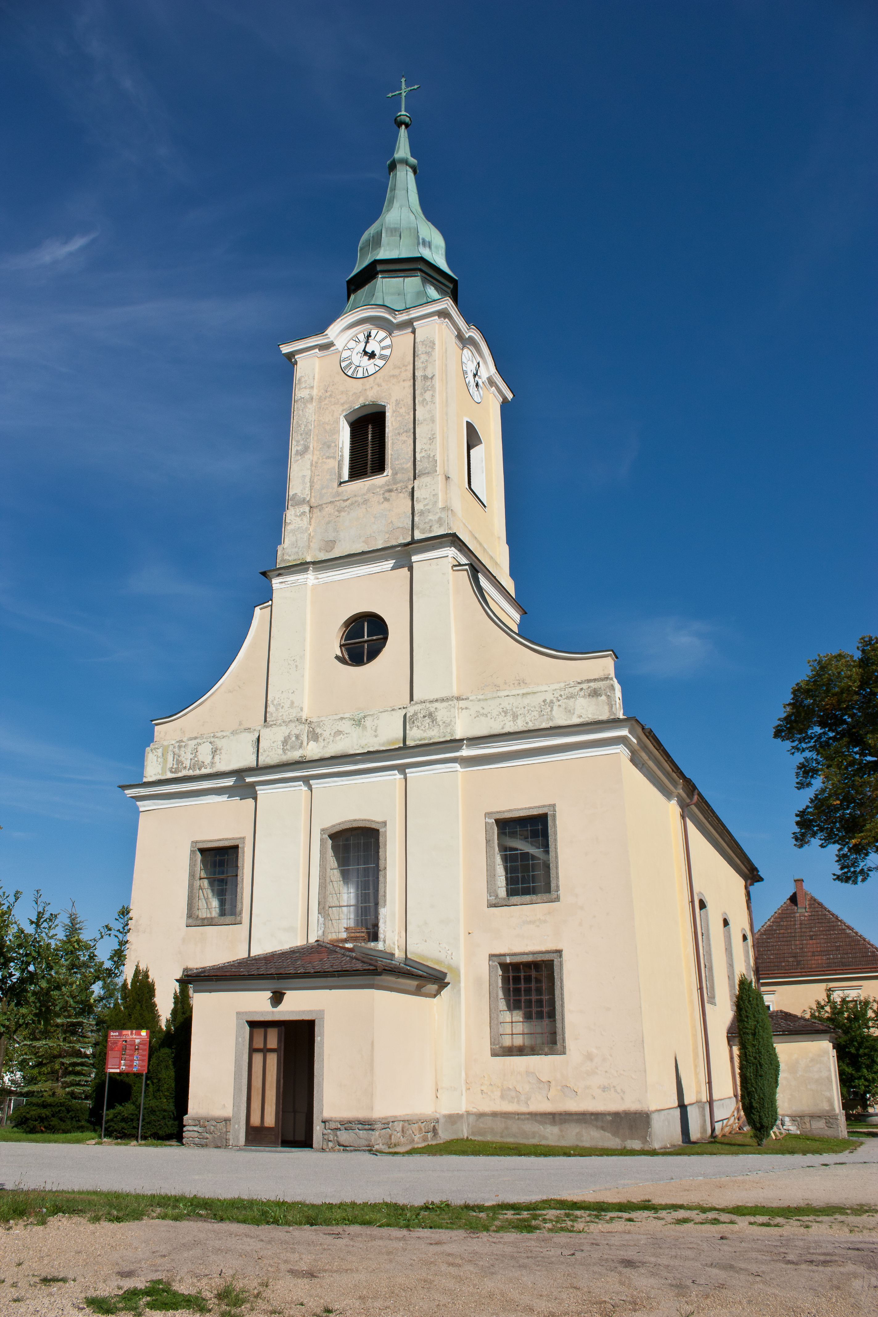 Assumption Day-Church in Langegg